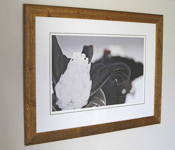 The source of this image is the photographer David Tipling, who is the sole owner and copyright holder of this photograph and agrees to publish it under the Creative Commons Attribution 3.0 License. David Tipling is the photographer of both the framed print and this photograph as well.